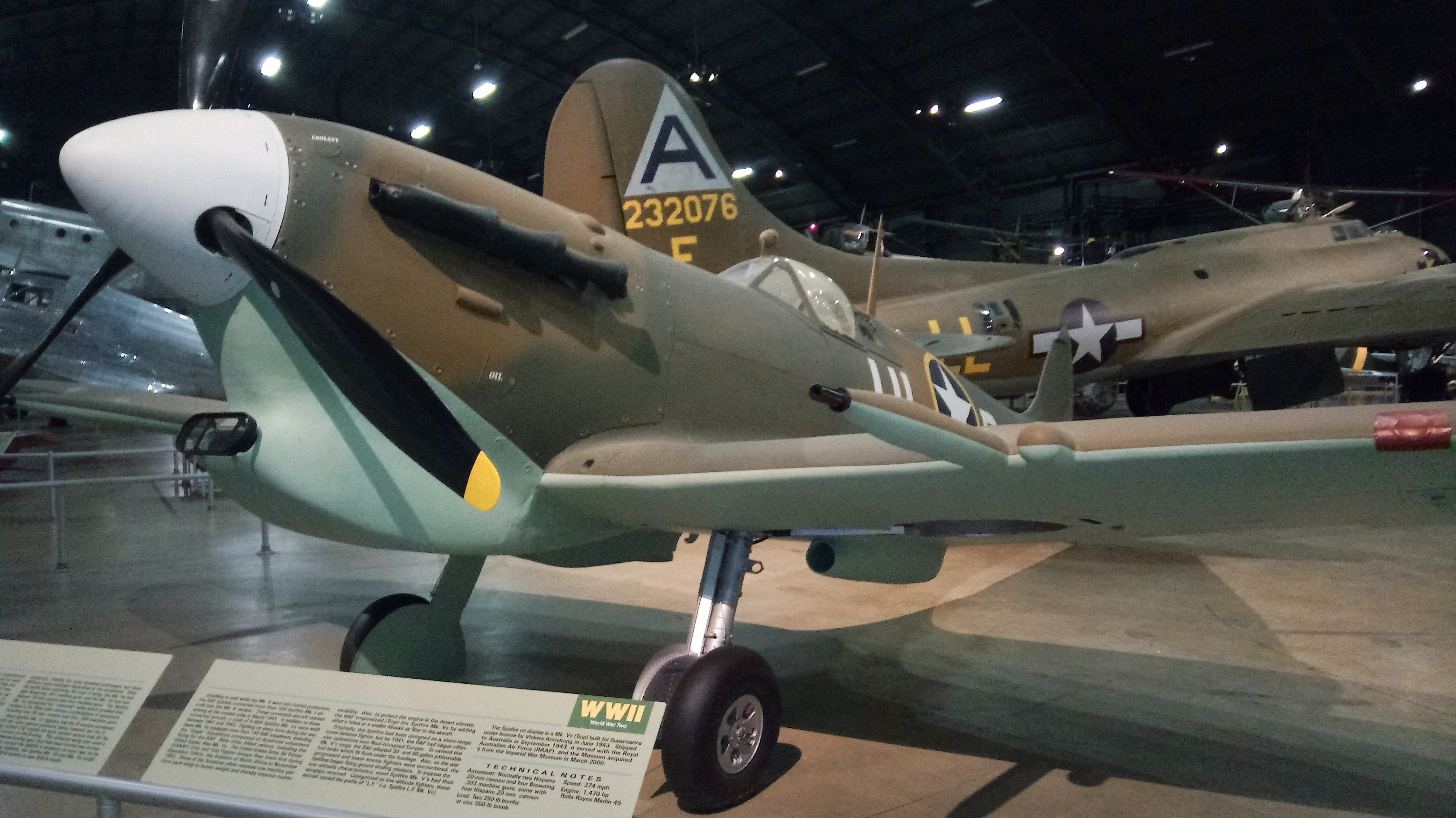 Spitfire at Wright-Patterson Air Force Museum